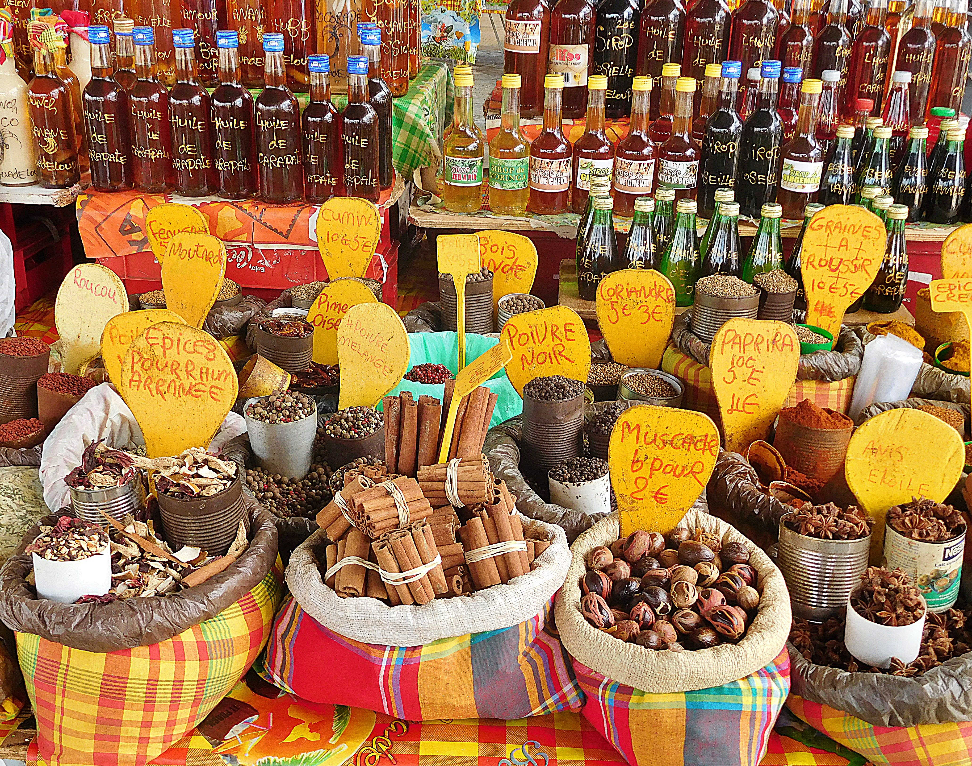 Spices and oils from plants for sale at the Spices market of La Darse at Pointe-à-Pitre in Guadeloupe